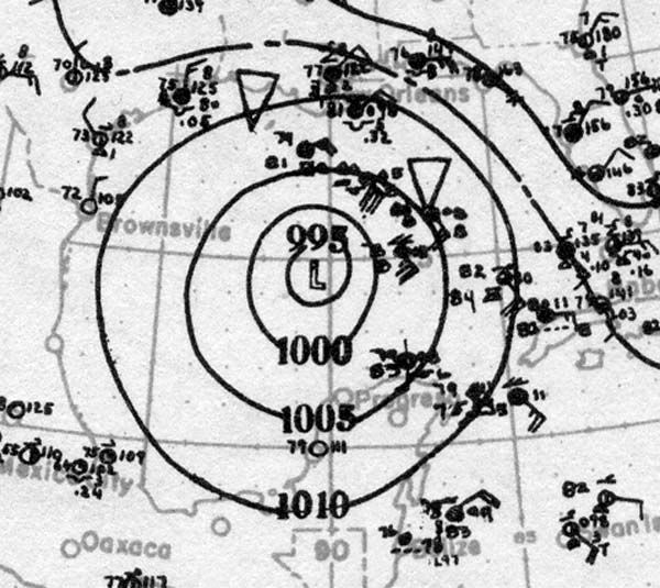 Surface analysis of Hurricane Two of the 1920 Atlantic hurricane season as it approached Texas, at the time a Category 1